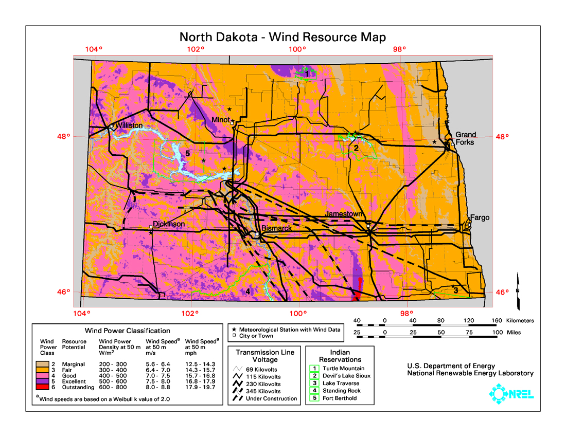 Average annual wind power distribution for North Dakota, 50m height above ground, also showing location of existing electrical transmission lines